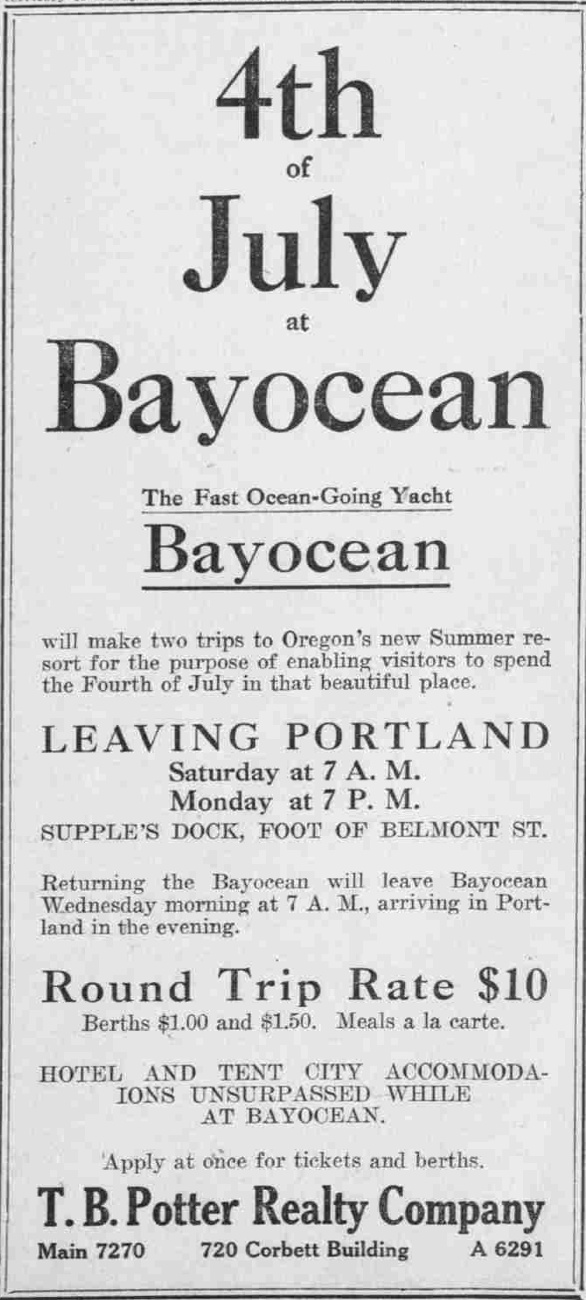 Advertisement for an excursion to be run on the then newly completed motor yacht Bay Ocean.